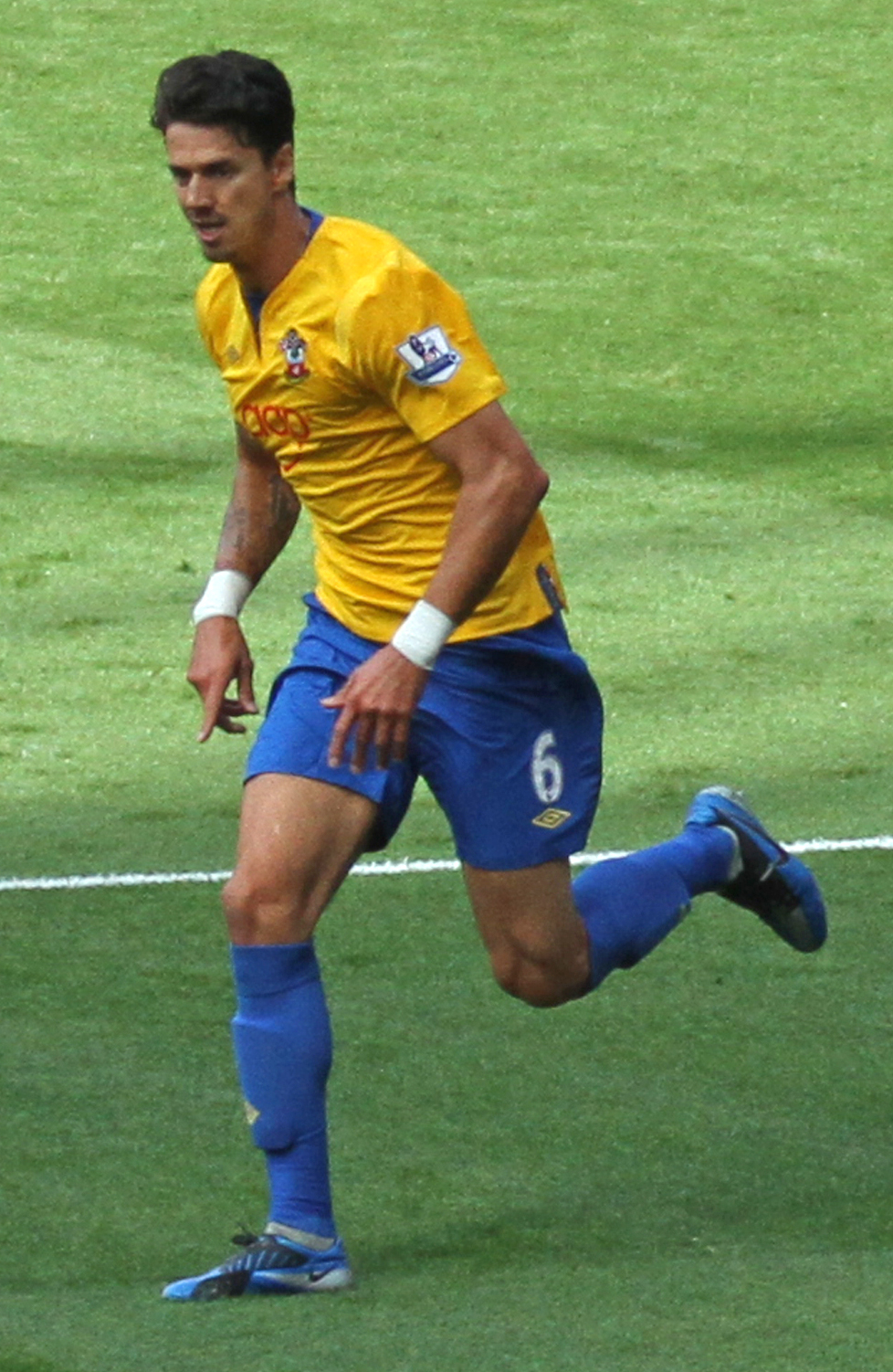 Gervinho defended by Nathaniel Clyne